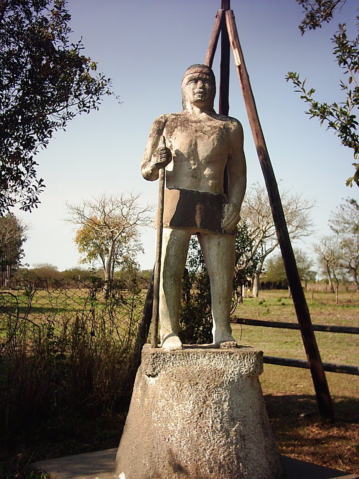 A statue of Leoncito, an indian leader who supported San Buenaventura del Monte Alto reduction. This statue is located on the place where was the main chapel of this reduction.